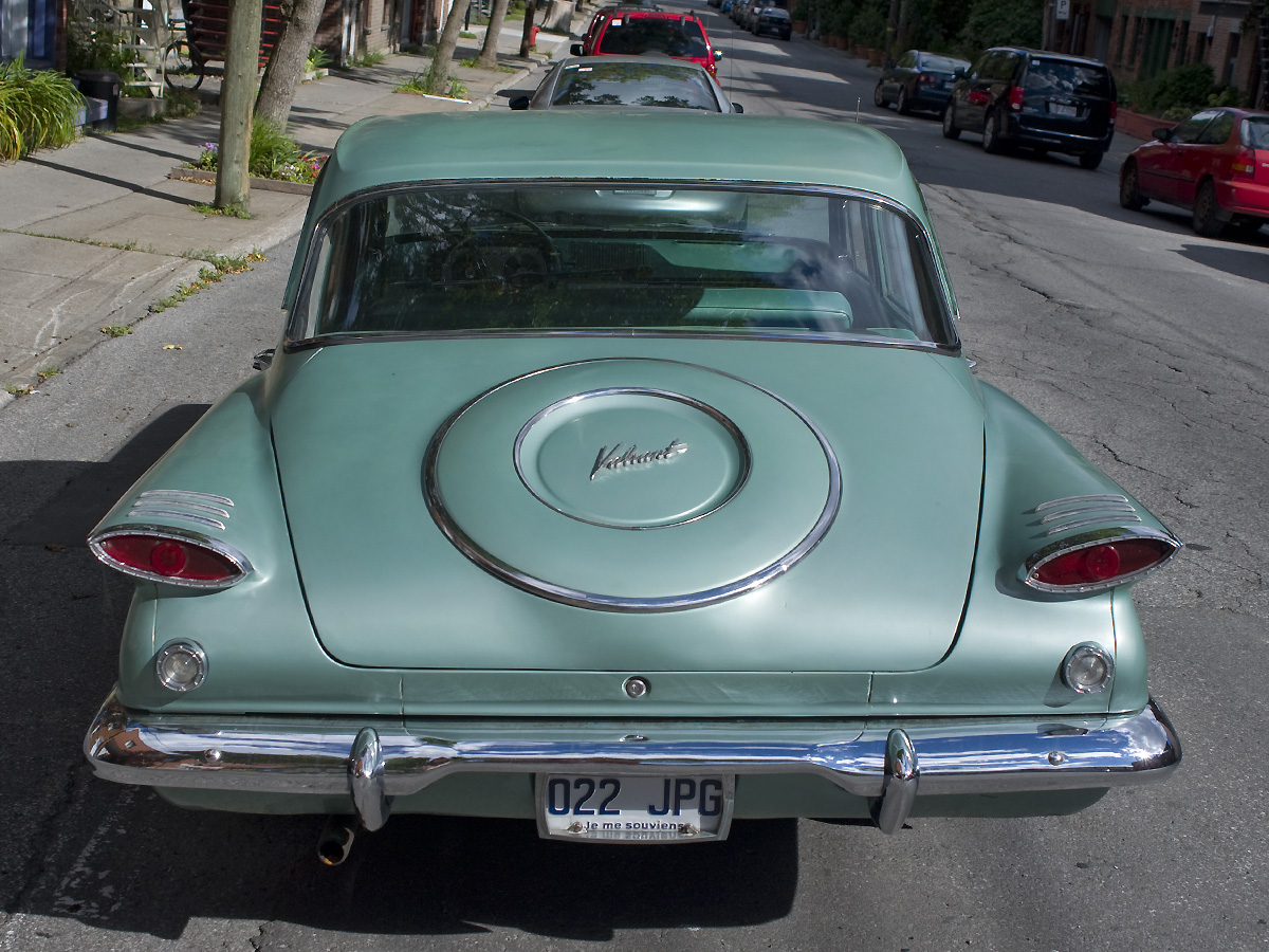 1960 Plymouth Valiant back